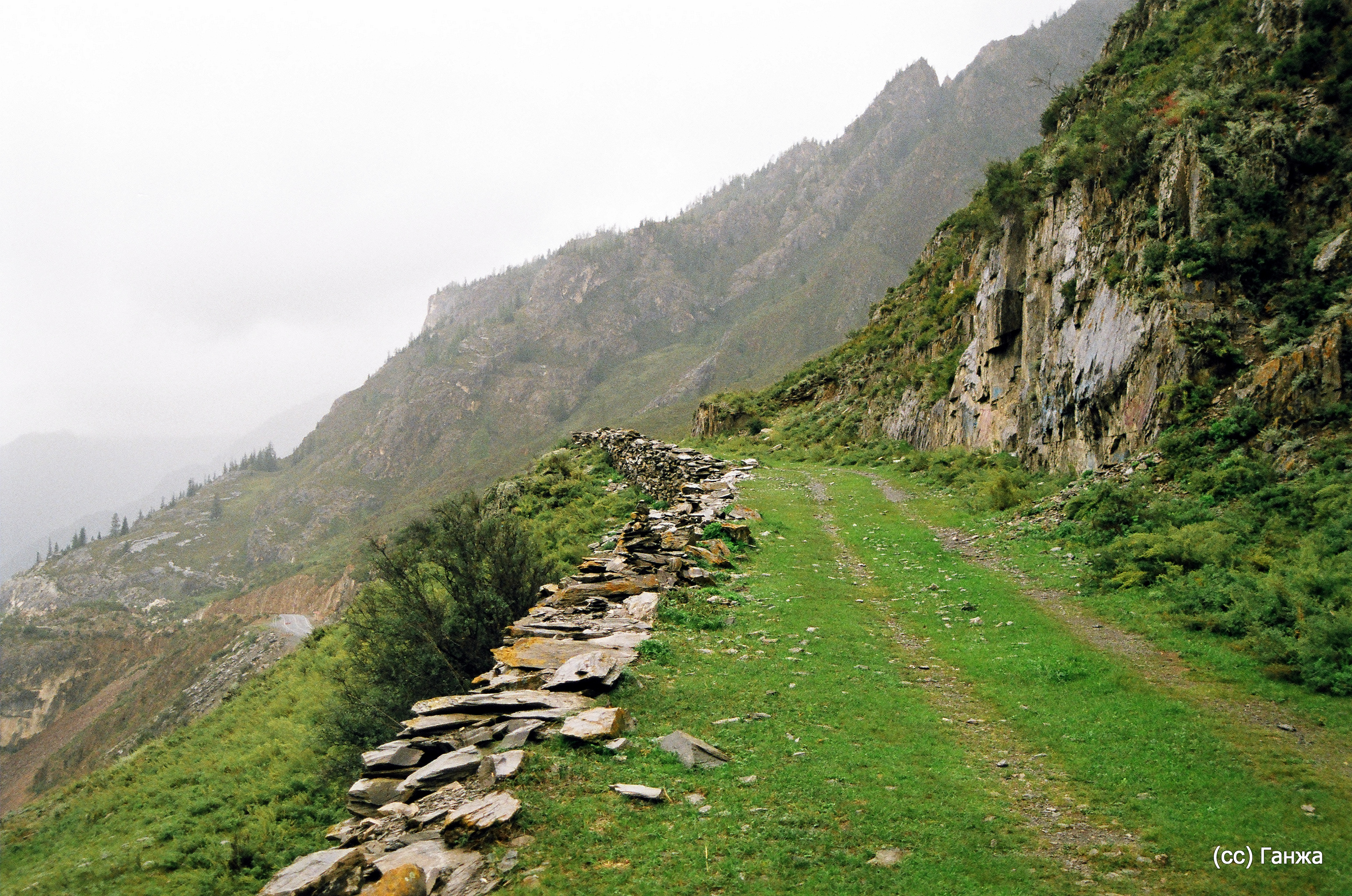 Old Chuisky Trakt